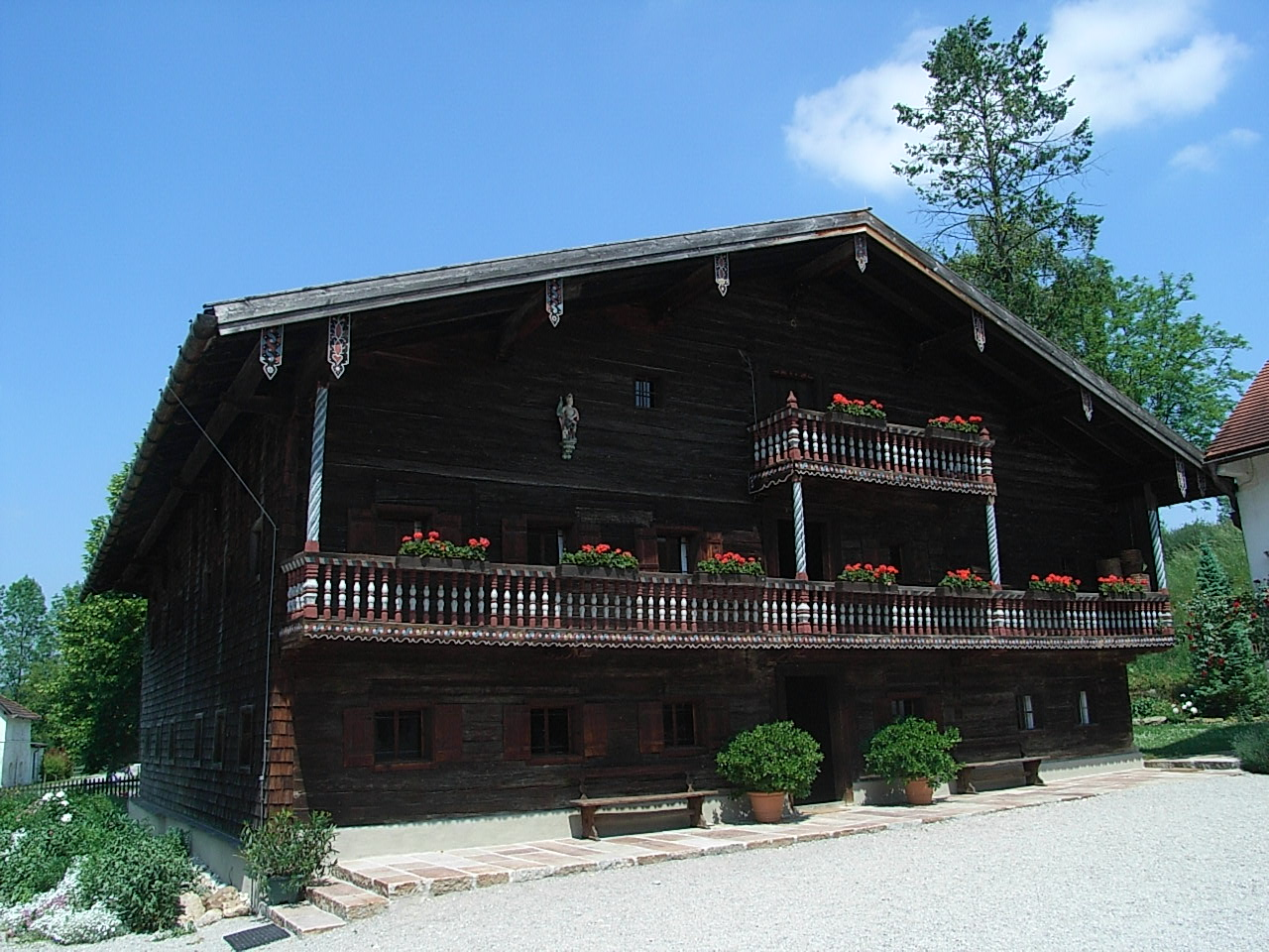 Parzham, Venushof, birthplace of St Conrad of Parzham.